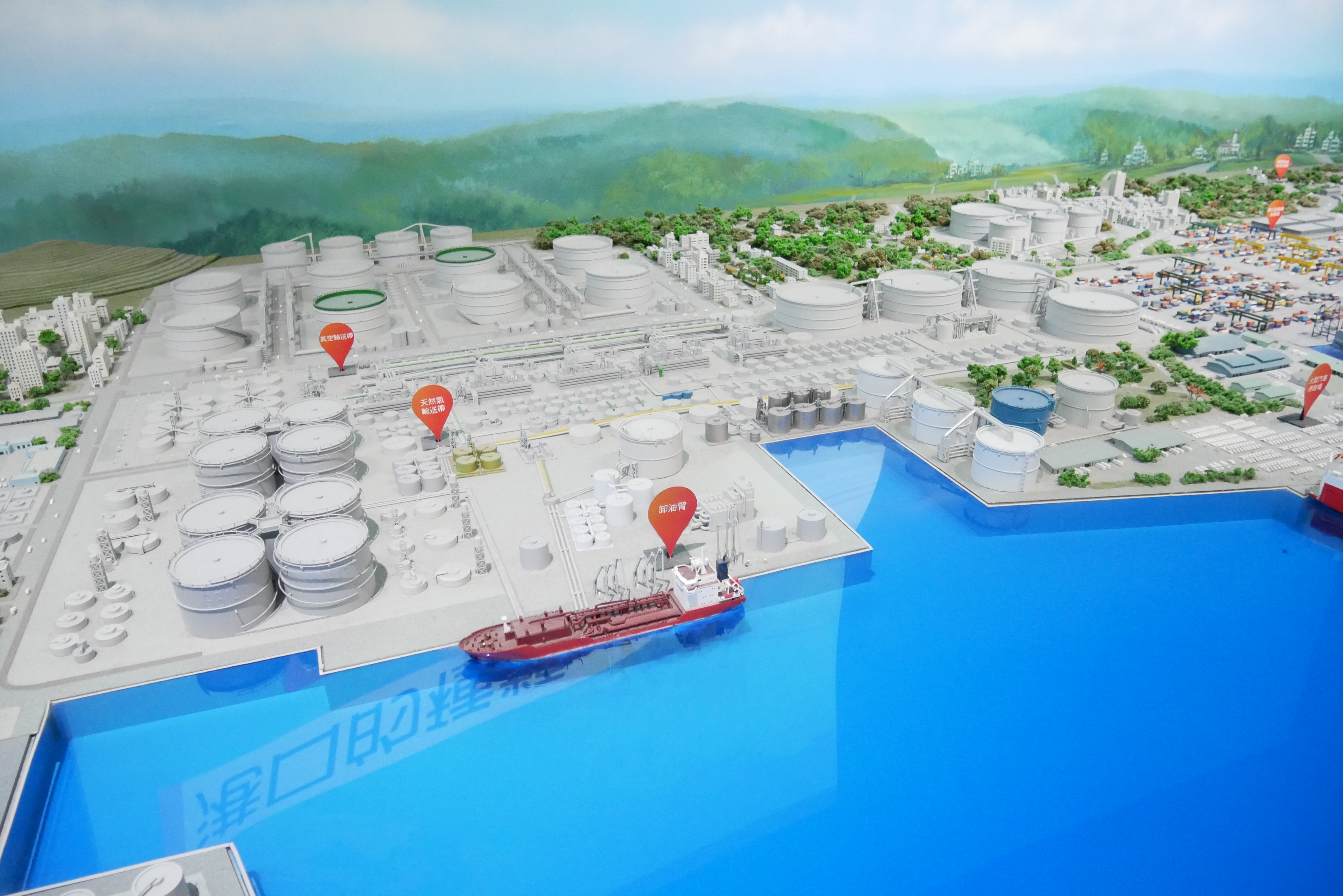 國立海洋科技博物館內工業港模型，基隆市中正區長潭里